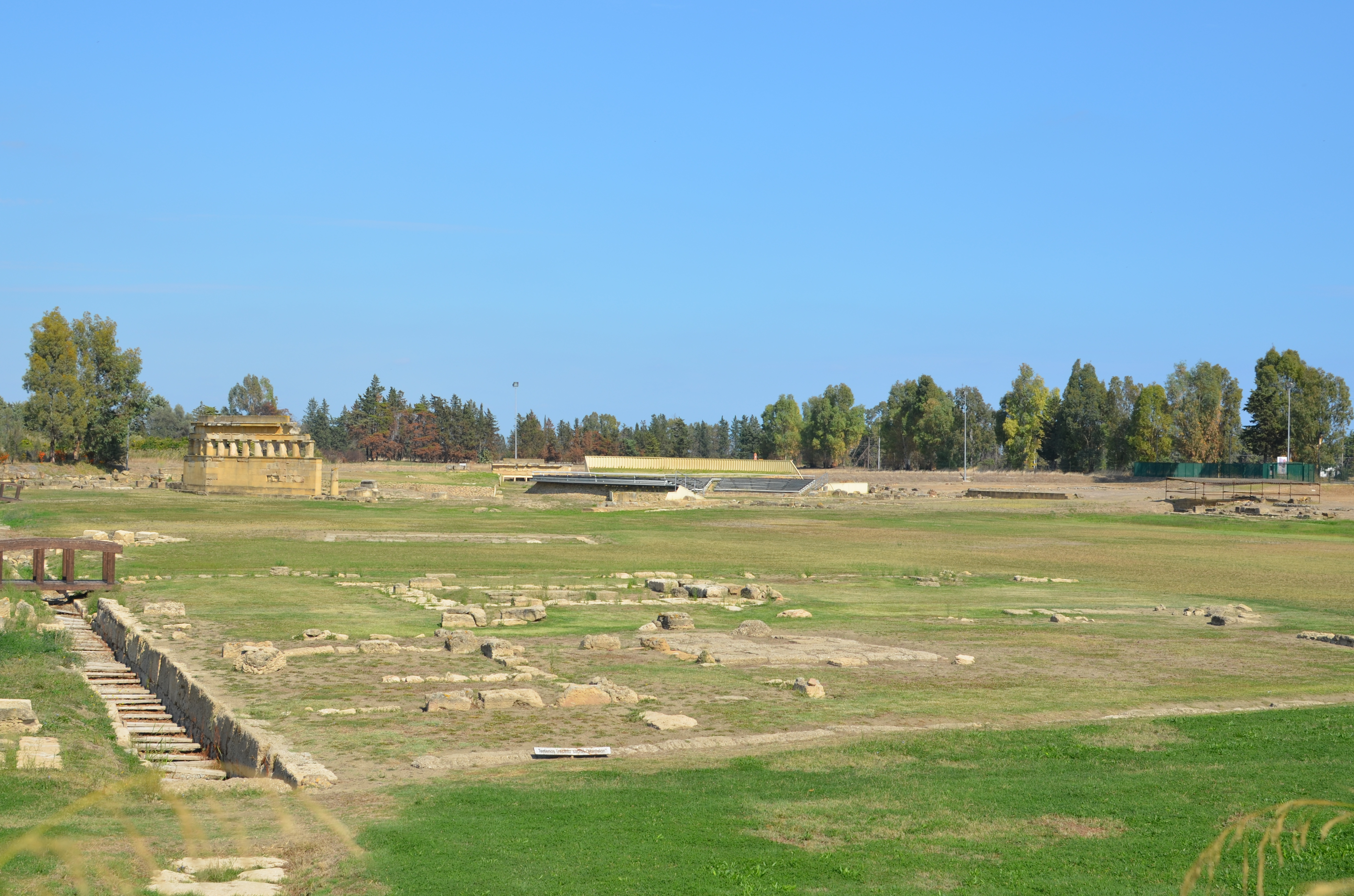 The manteion at Metapontum. The theatre is visible in the distance, the remains of the wall indicate the original size of the theatre.